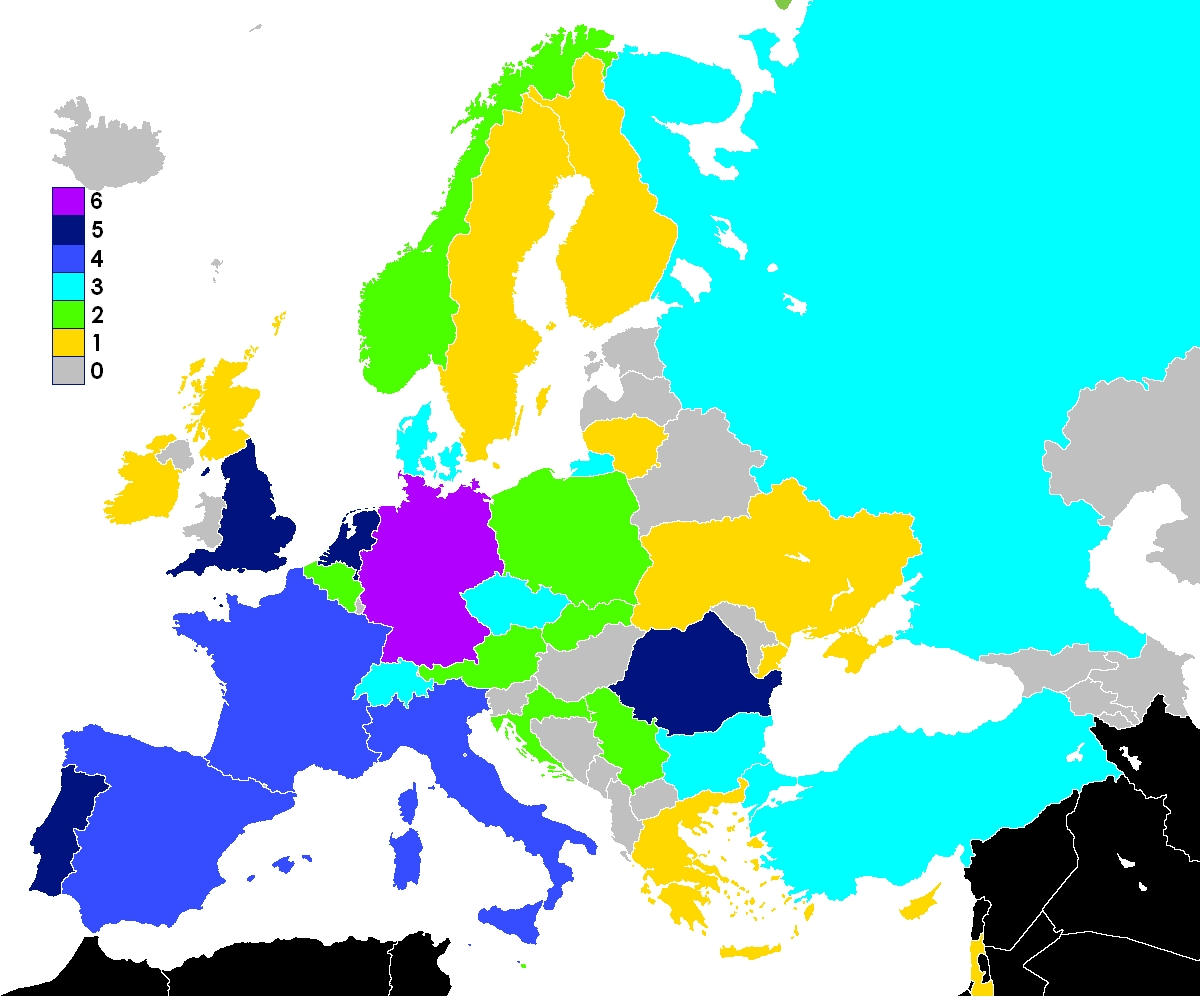 Number of teams per country in the first round of the 2008-09 UEFA Cup